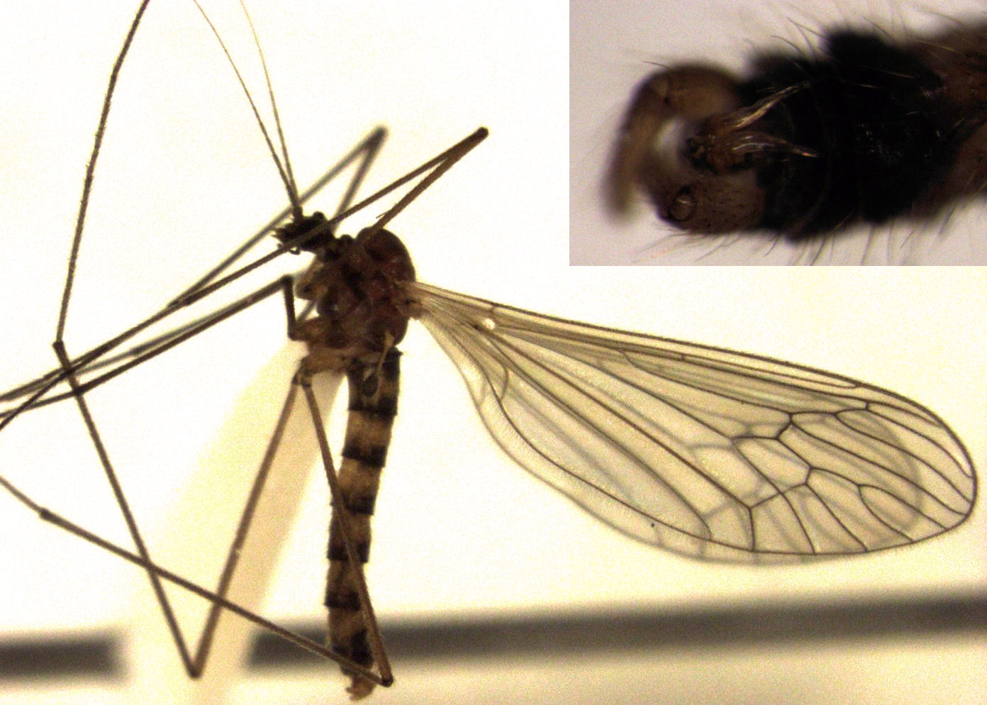 Trichocera annulata (adult male, with terminalia inset)